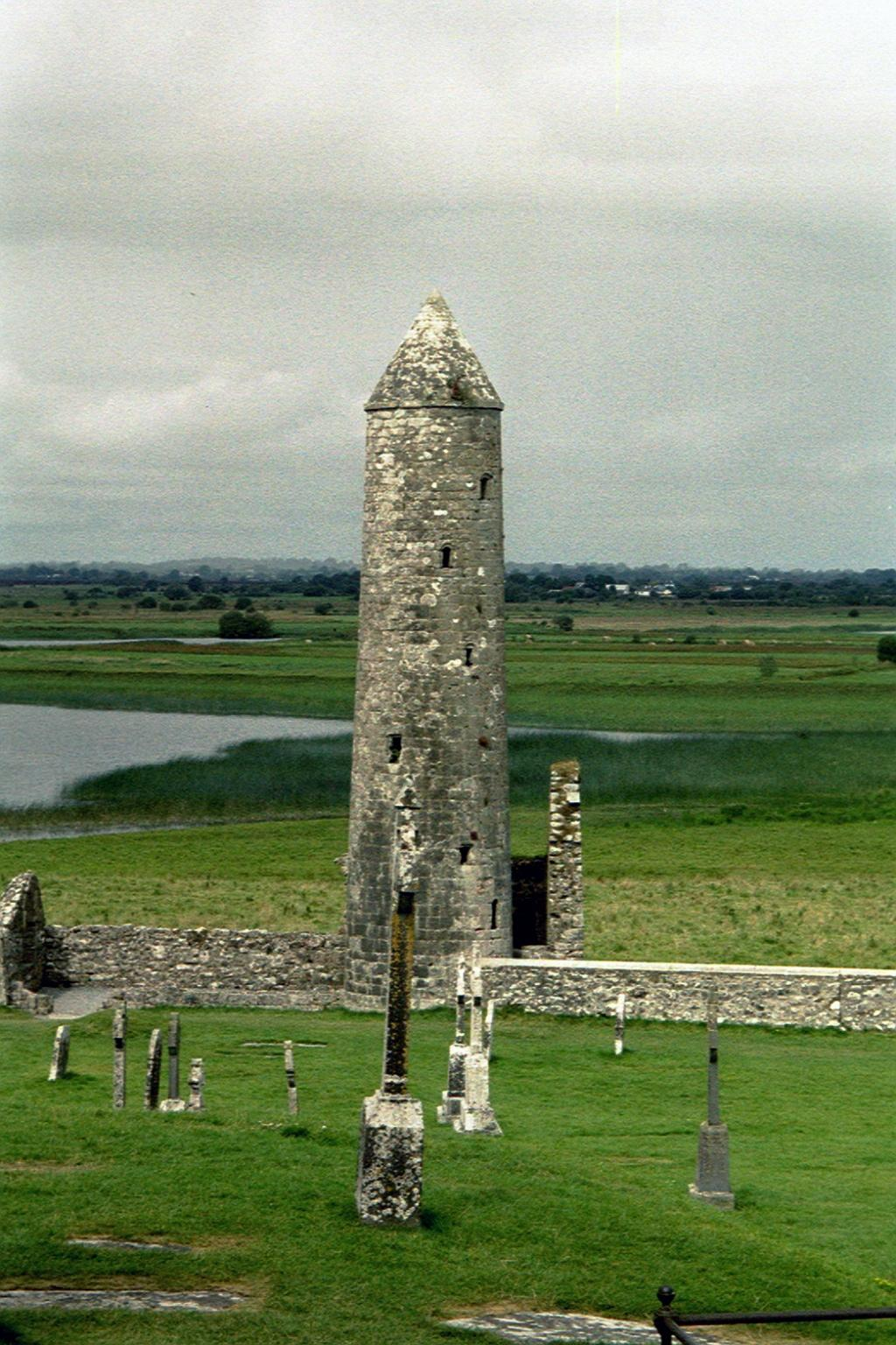 Clonmacnois, County Offaly, Ireland Round Tower with the Shannon river in the background